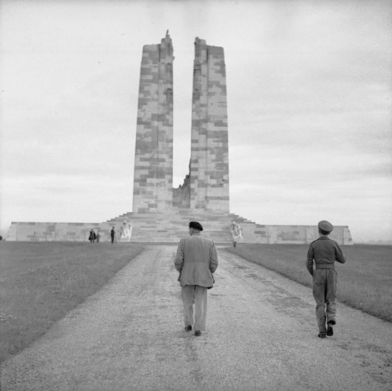 The British Army in North-west Europe 1944-45 Field Marshal Montgomery visits the Canadian First World War memorial at Vimy Ridge, 8 September 1944.